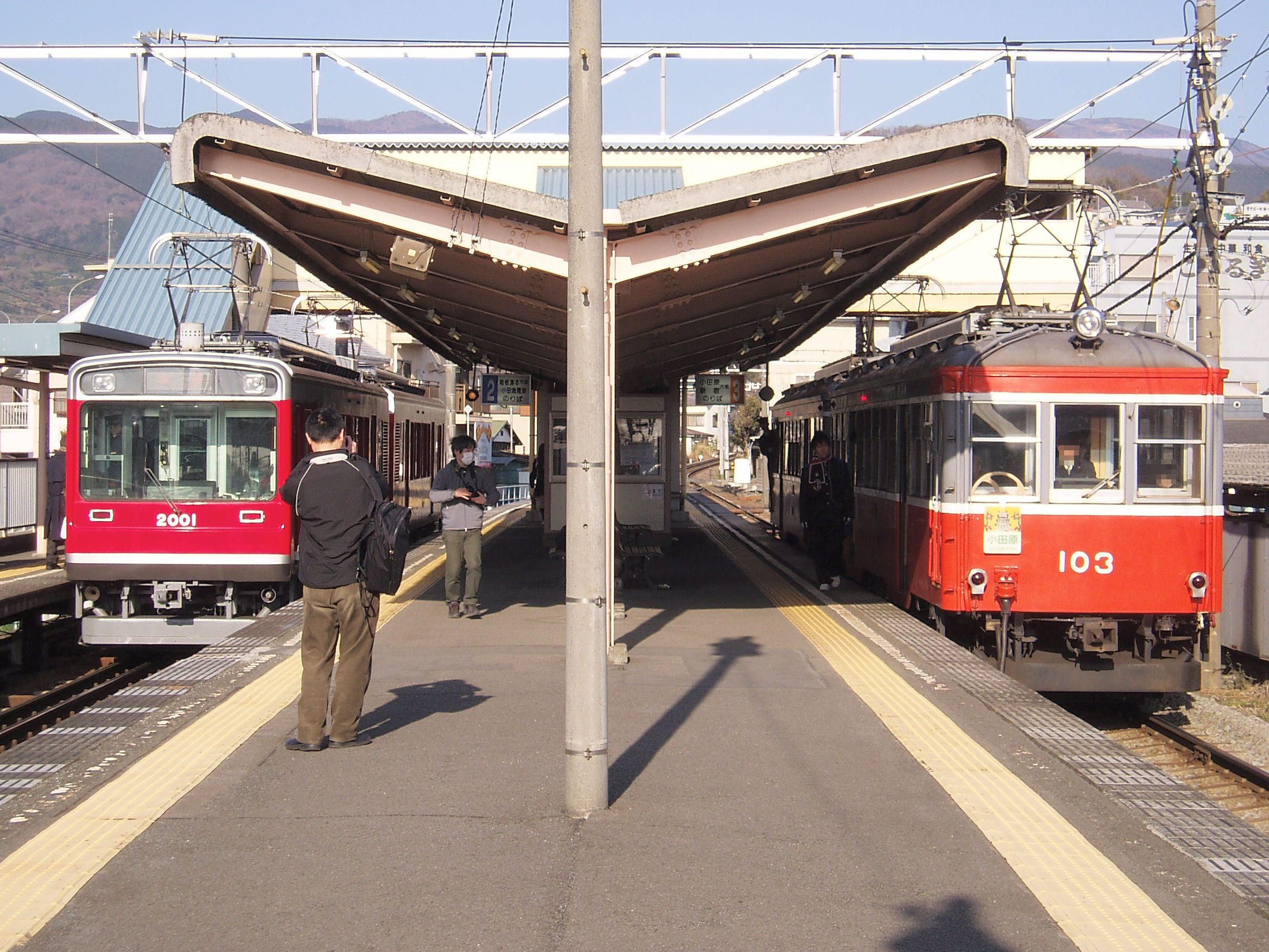 Platform at Hakone Itabashi Sta.